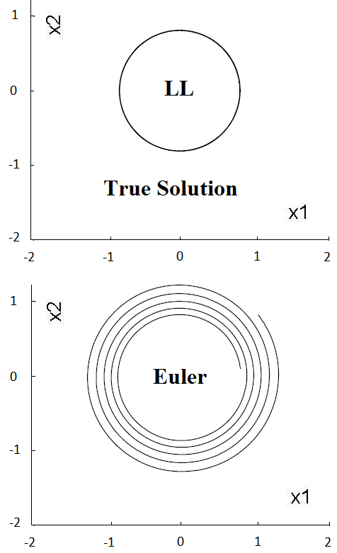 cambio de imagen